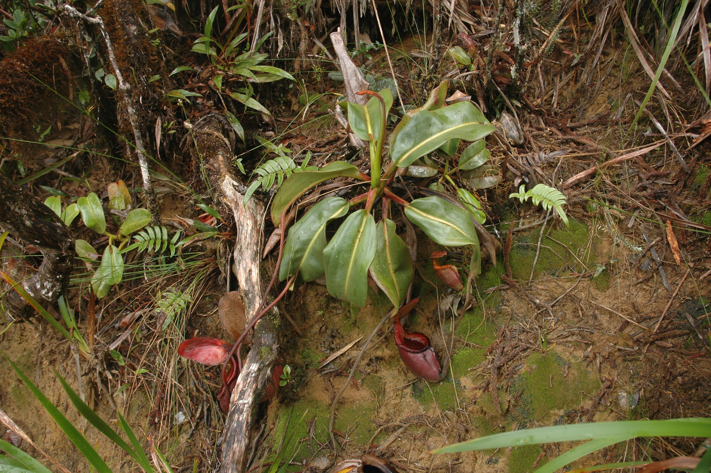 Nepenthes × kinabaluensis Plant Kinabalu by Jeremiah Harris